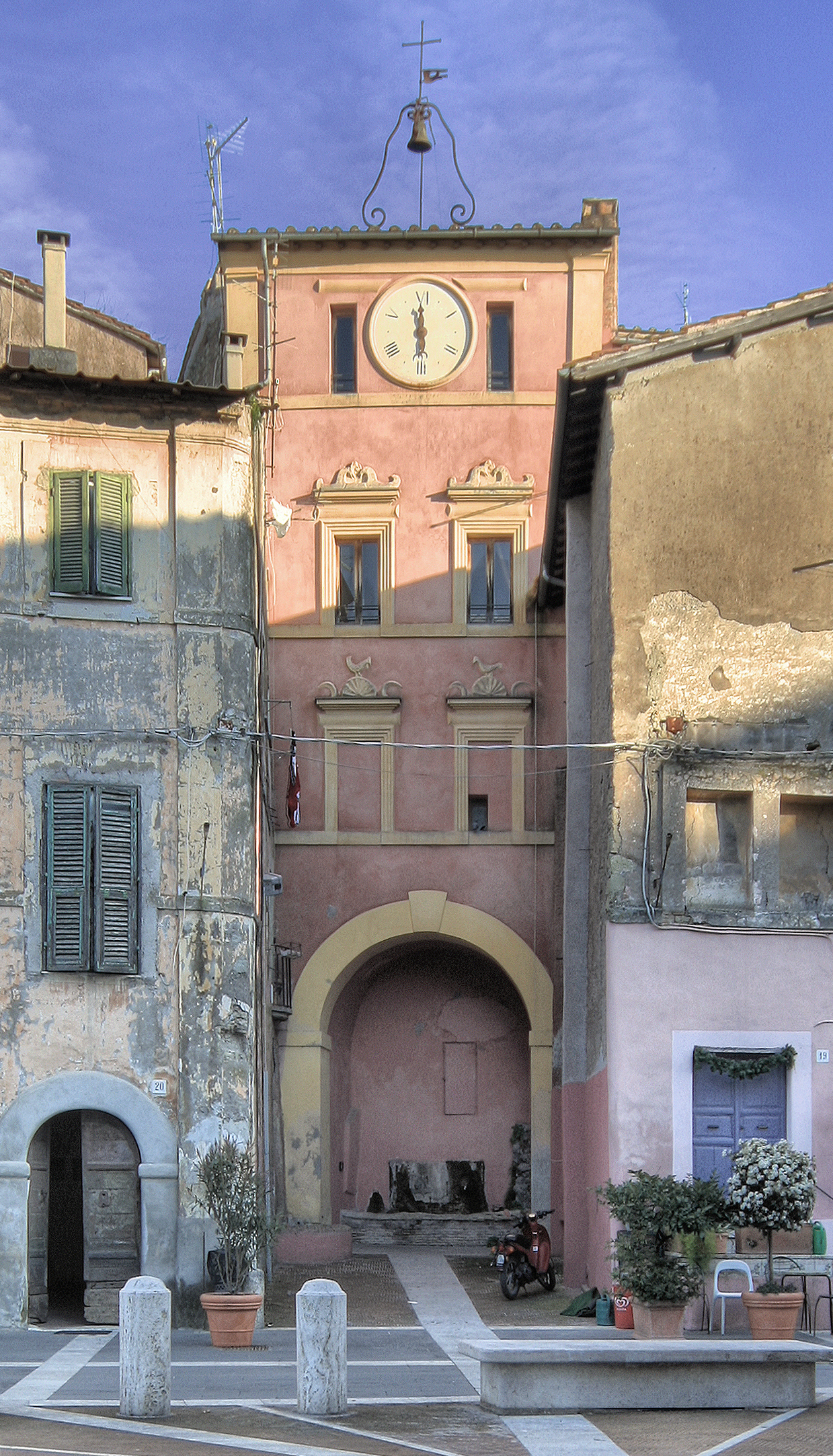 Medieval clock tower in Piazza del Popolo, Capena, Italy